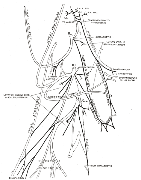 Plan of the cervical plexus. (Gerrish.)